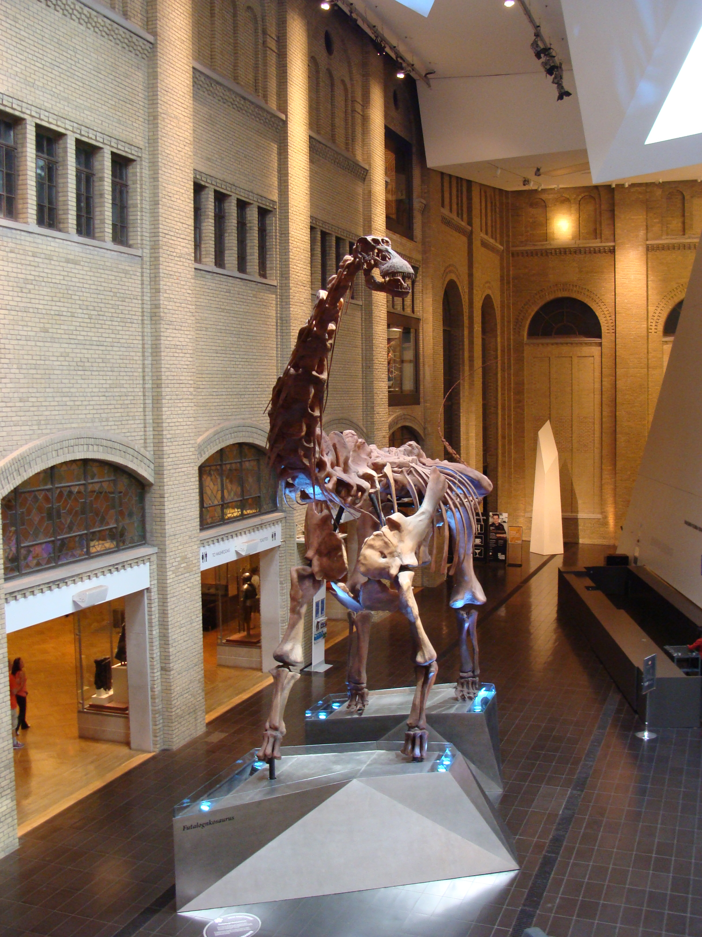 Futalognkosaurus on display at the Royal Ontario Museum. Royal Ontario Museum interior — in Toronto, Ontario, Canada.